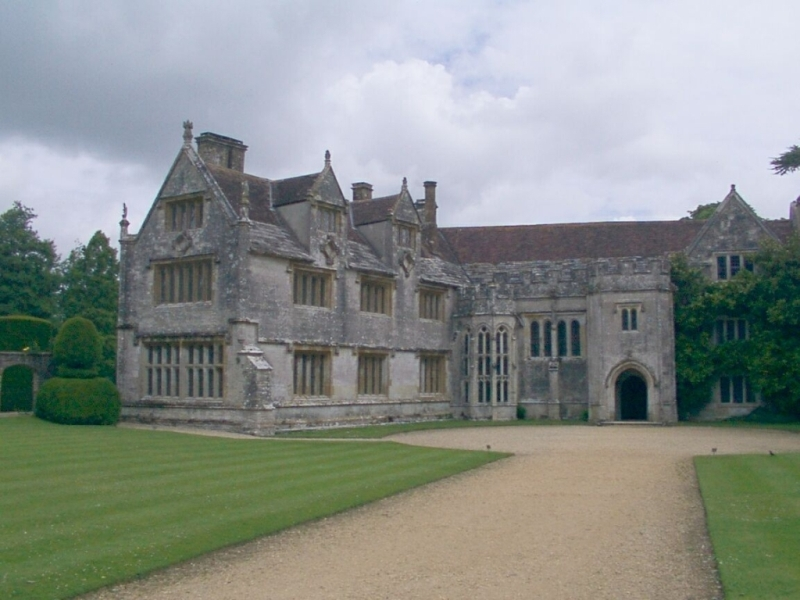 Athelhampton House near Dorchester, Dorset, England in 2003